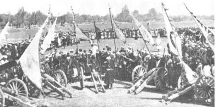 Uighur Khotanlik army parade with Muhammad Amin Bughra.